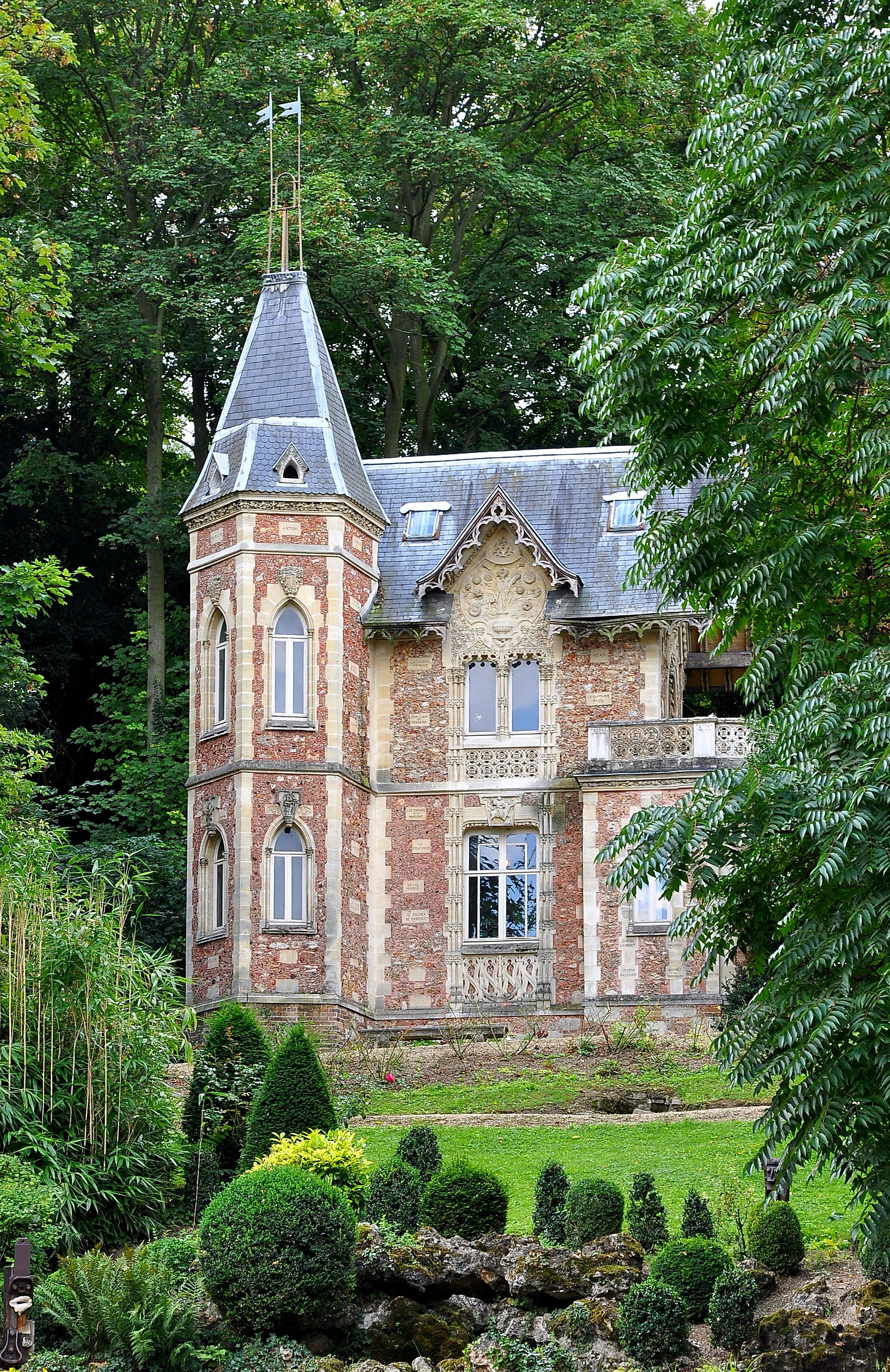 château d'If of the famous writer Alexandre Dumas in Le Port-Marly, Yvelines, France.